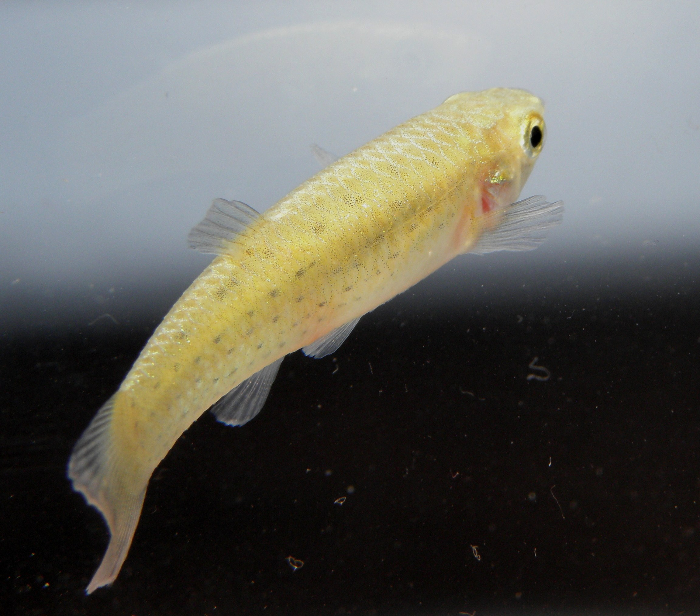 A female Onesided livebearer (Jenynsia multidentata).